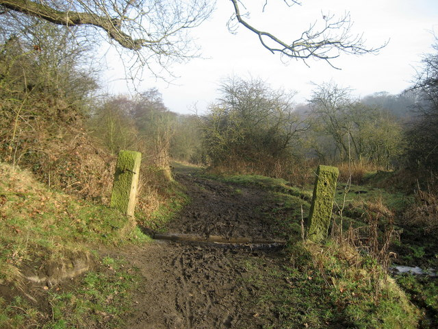 Leeds Country Way in Cockersdale A very soggy long distance footpath heading north down Cockersdale in the direction of Pudsey.